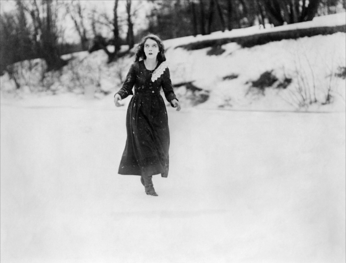 Lillian Gish as Anna Moore in Way Down East (1920).